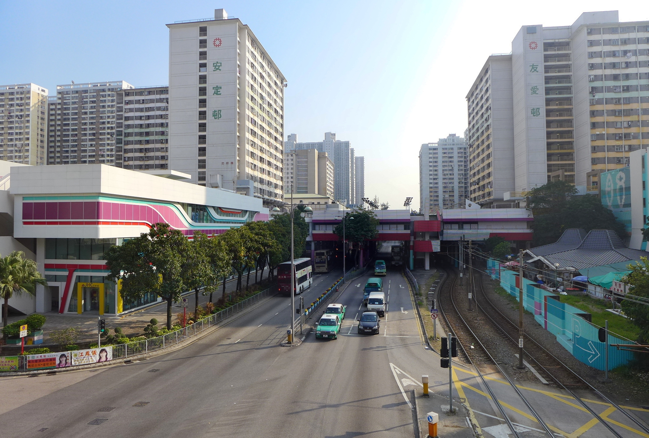 H.A.N.D.S Shopping Arcade Overview_